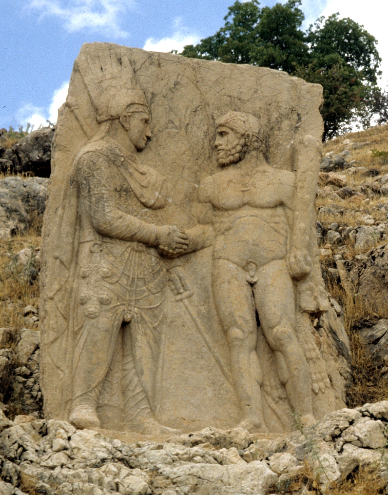 Sacred Handclasp between Antiochus I| and Heracles